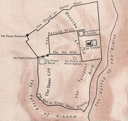 Map of Jerusalem at the time of Herod and Titus